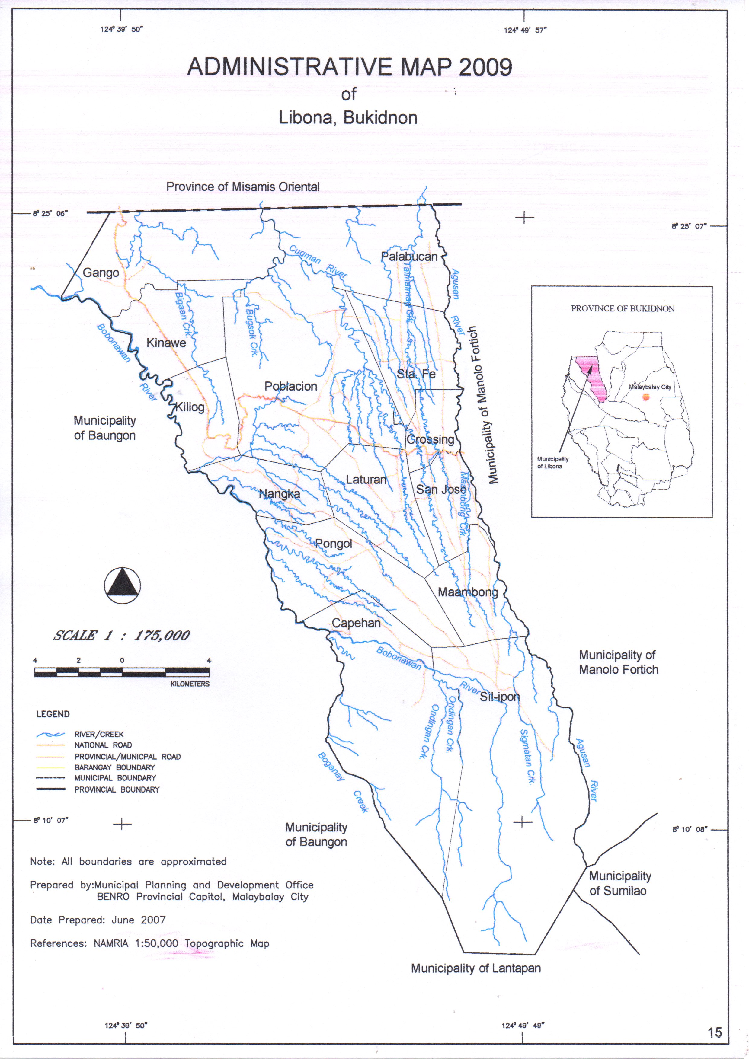 The admin. map of Libona Bukidnon